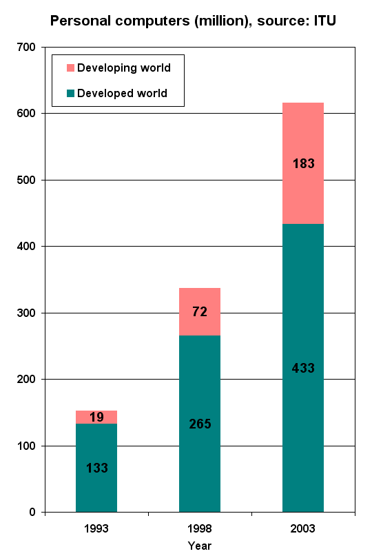 Personal computers (million) by International Telecommunication Union (ITU)